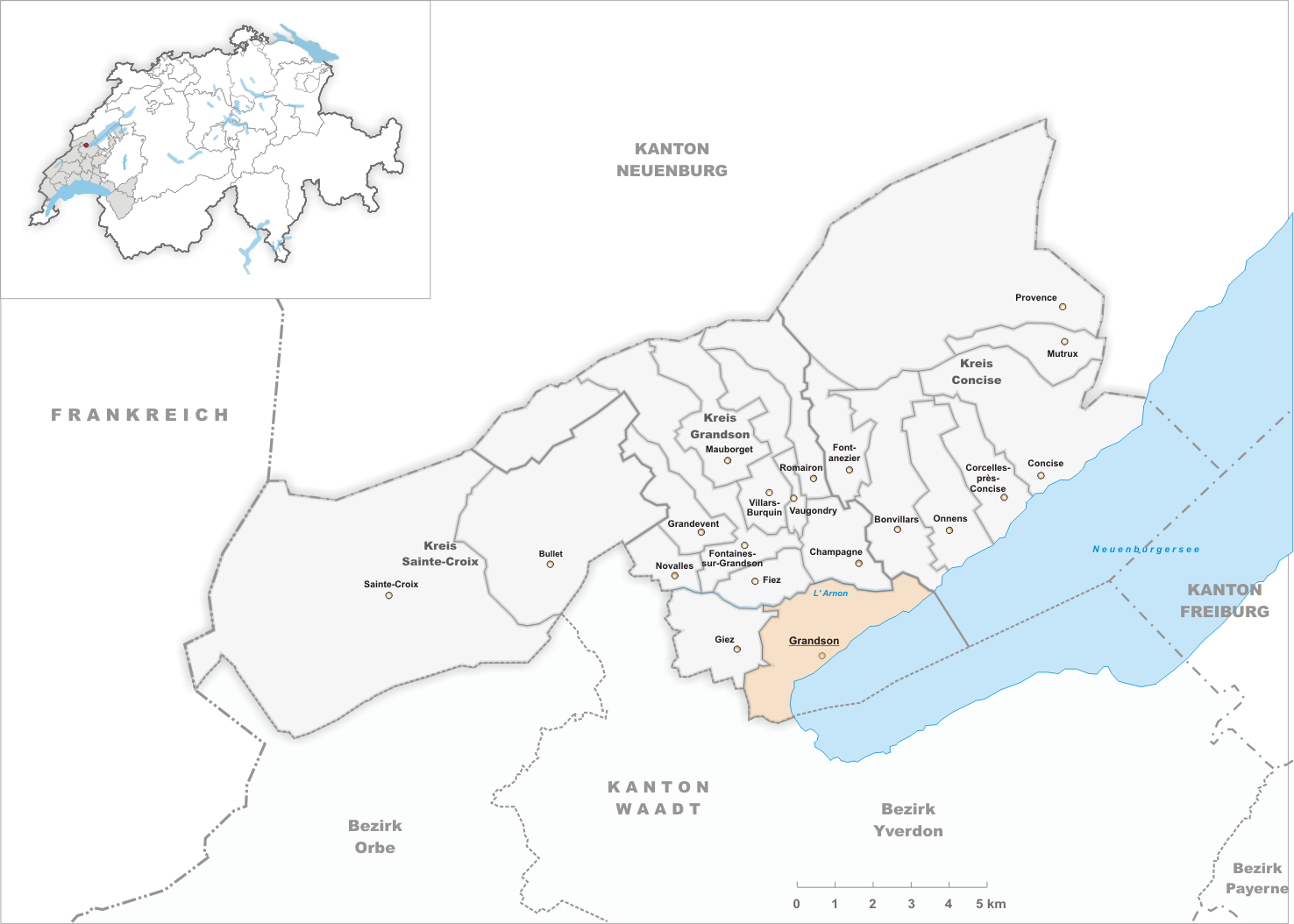 Municipality Grandson